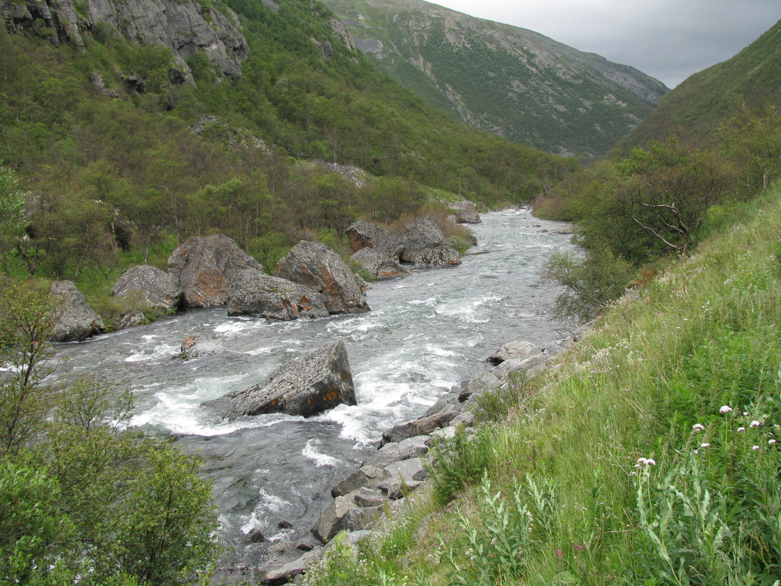 Driv valley (Drivdalen) with Driva river going north from Dovrefjell mountain range, Oppdal municipality, Sør-Trøndelag county, Norway.